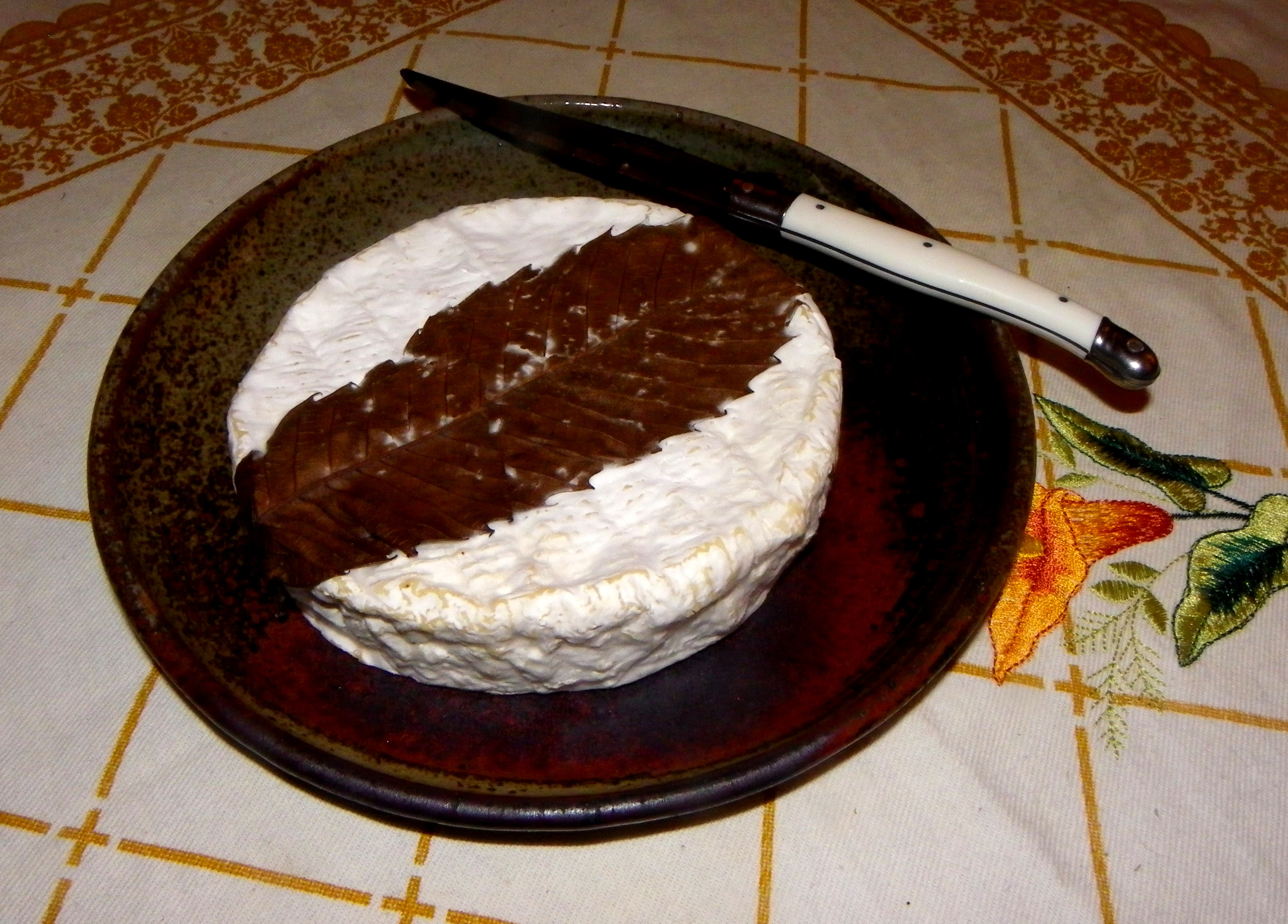 Feuille de Dreux, a cow-milk cheese made in the French department Eure-et-Loir. The crust includes by tradition a chestnut tree leaf.